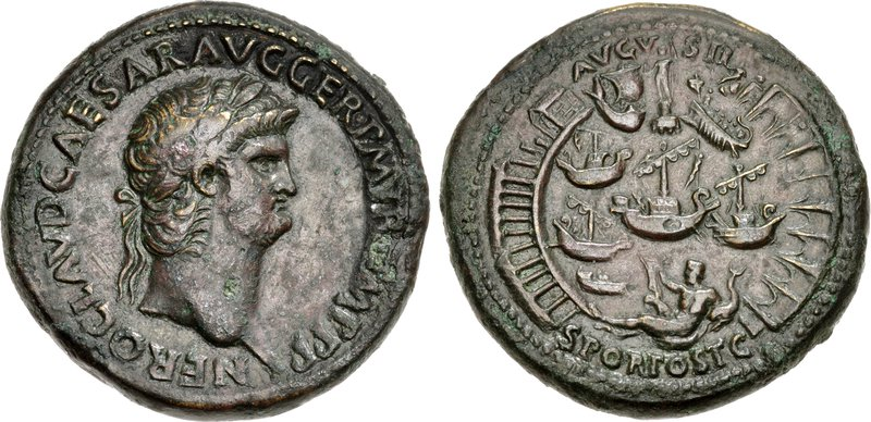 Nero. AD 54-68. Æ Sestertius (37mm, 28.77 g, 6h). Rome mint. Struck circa AD 64. Laureate head right Port of Ostia: seven ships within the harbor; at the top is a pharus surmounted by a statue of Neptune; below is a reclining figure of Tiber, holding a rudder and dolphin; to left, crescent-shaped pier with portico, terminating with figure sacrificing at altar and with building; to right, crescent-shaped row of breakwaters or slips. RIC I 178; WCN 120.